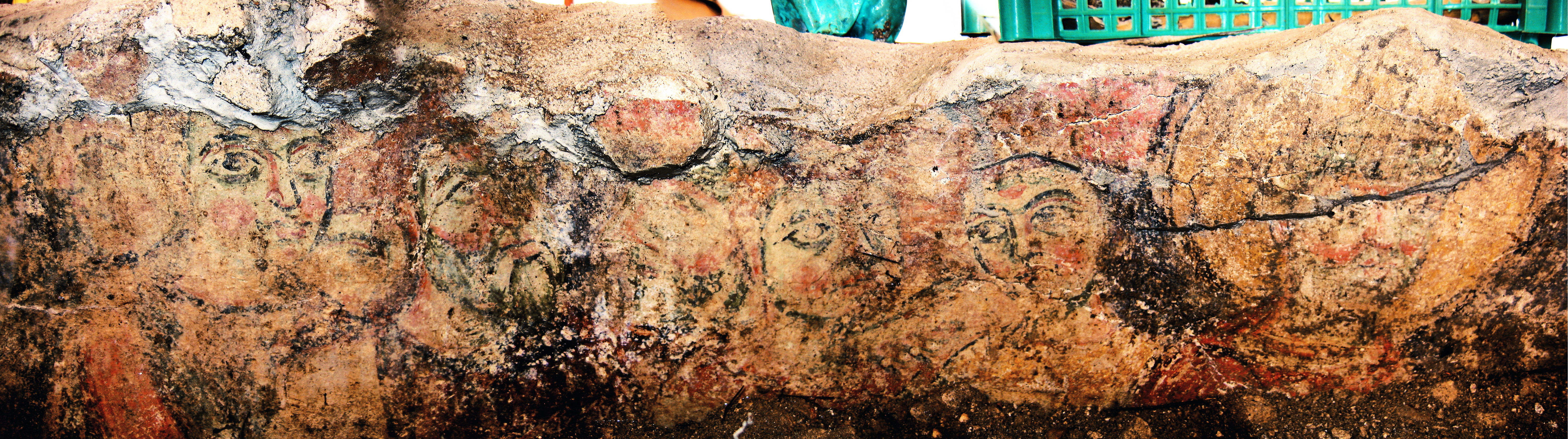 Crypt of San Marco dei Sabariani, Benevento, Italy. Fresco of people in a row.